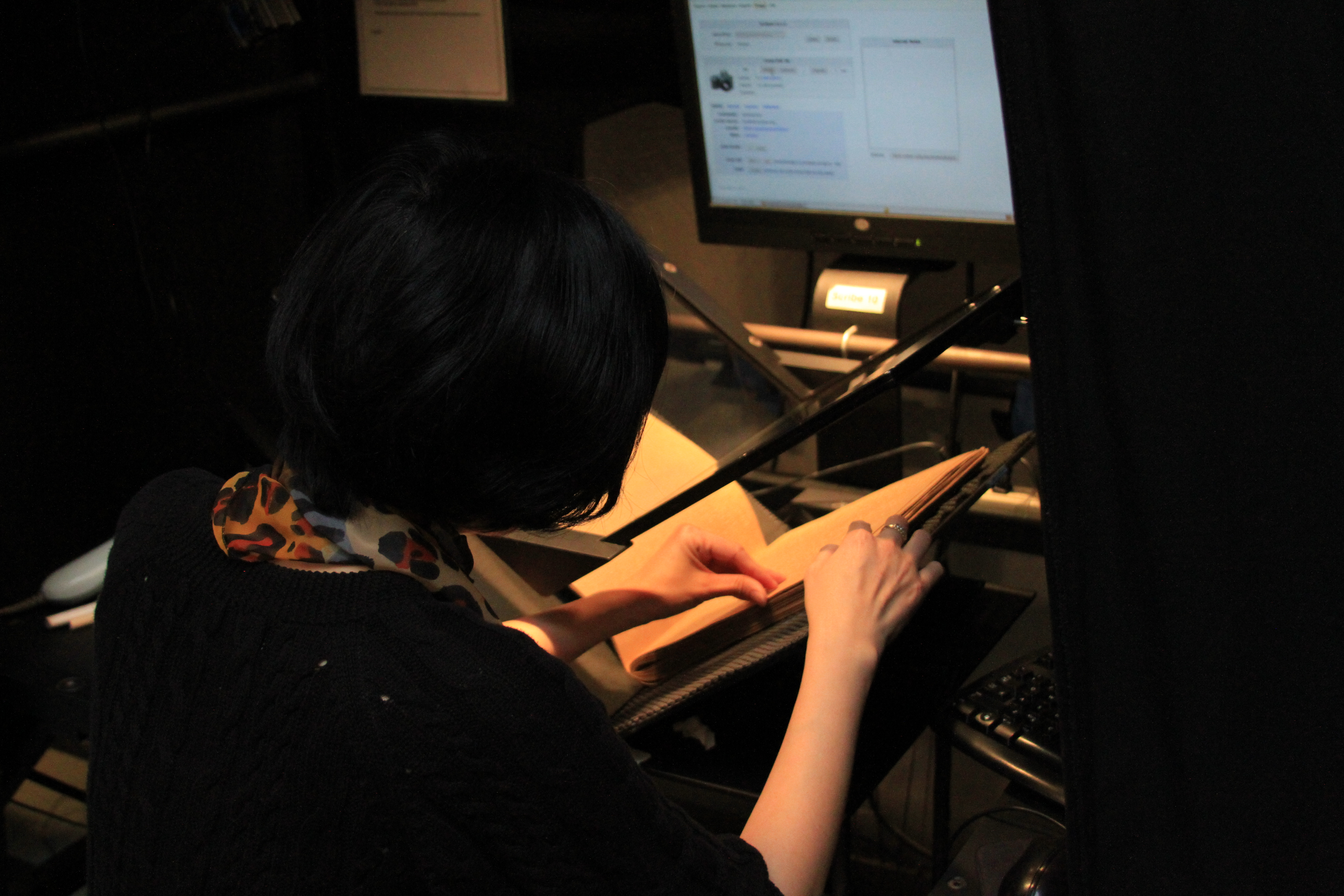 Turning the pages in between taking scans - in this way, the book was scanned in less than five minutes.